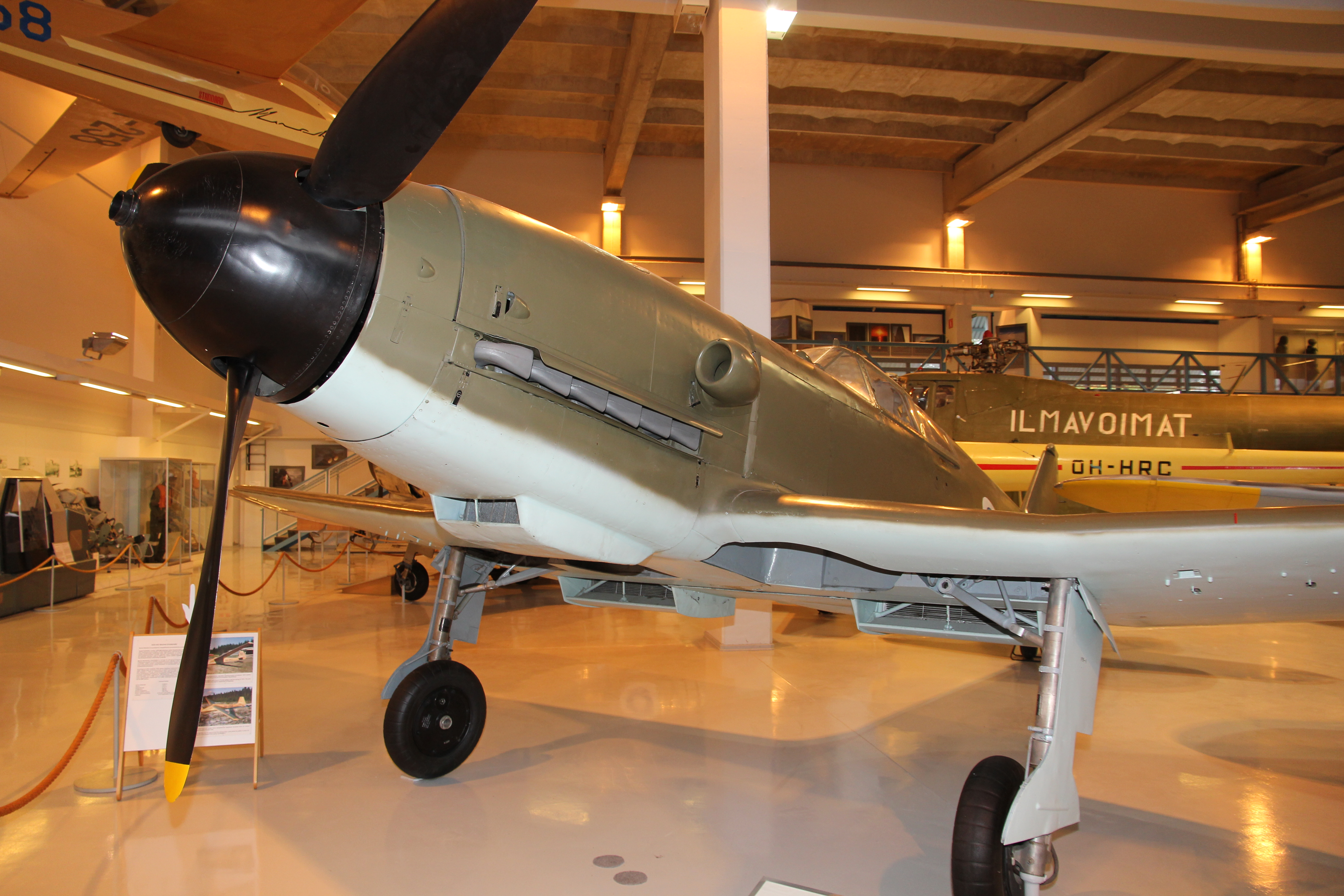 Finnish Pyörremyrsky fighter prototype (PM-1) in the Aviation Museum of Central Finland.